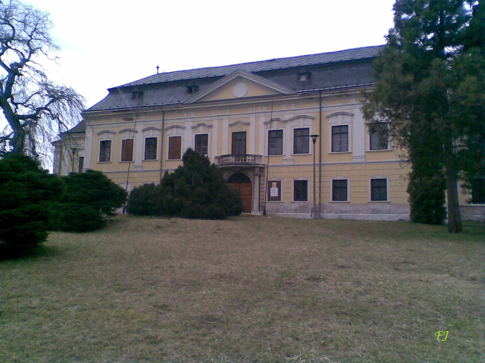 Žádlovice Chateau, Šumperk District, Czech Republic